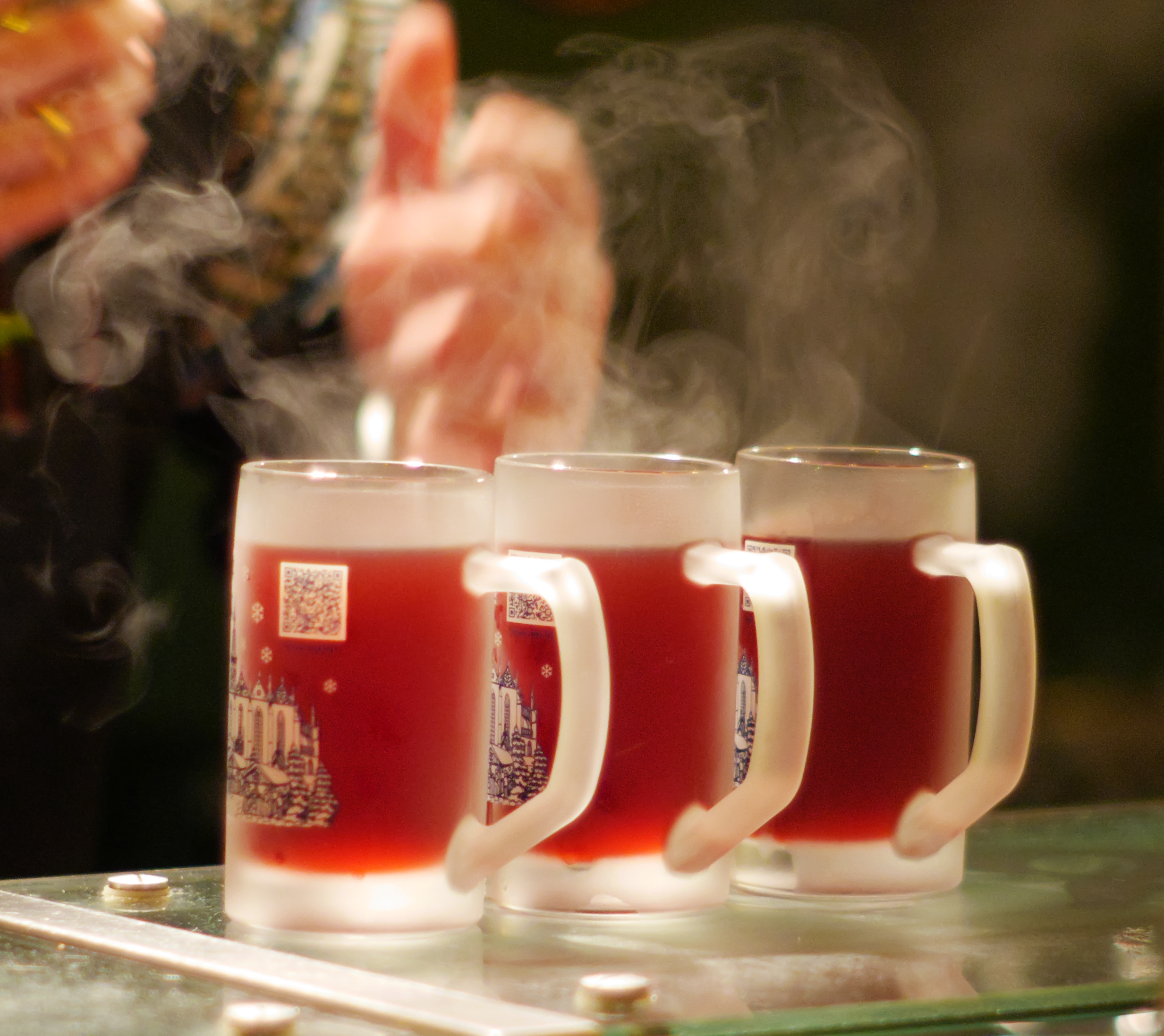 Mulled wine on the Christmas market in Osnabrück in Germany in 2015